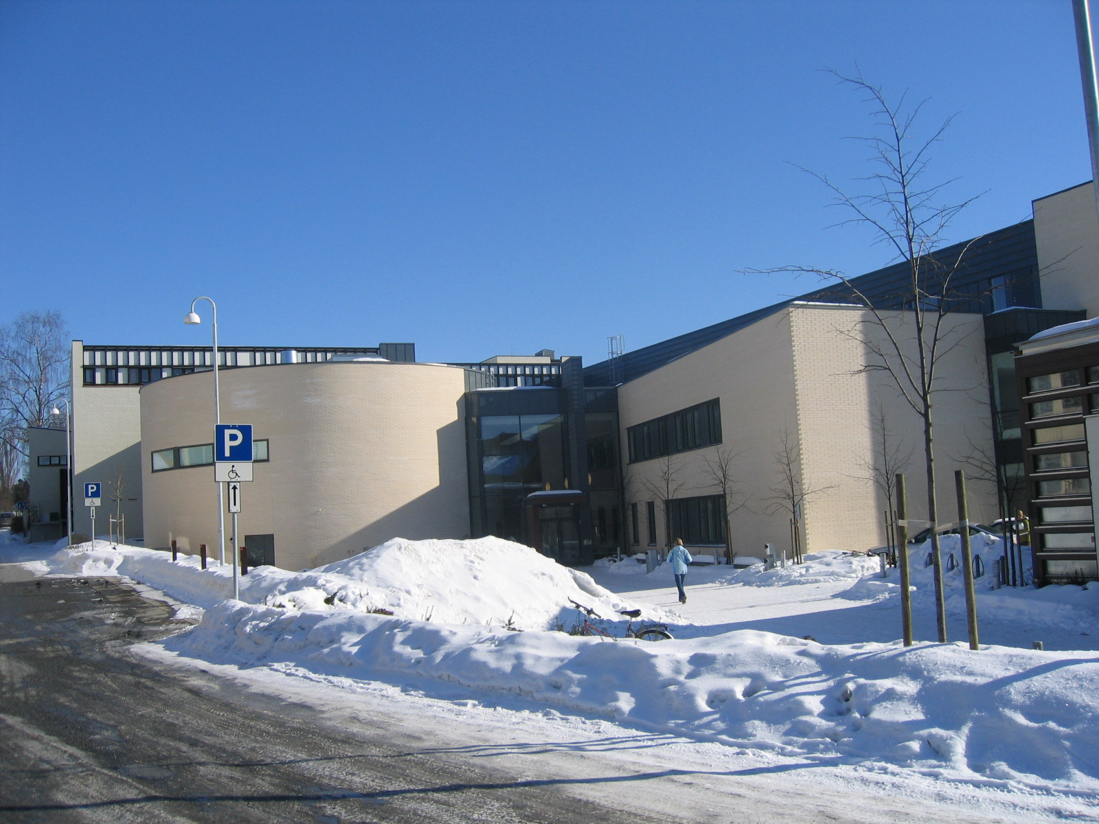 Hedmark University College Campus Hamar, Hedmark, Norway. Faculties: Teacher- & Social Education etc.